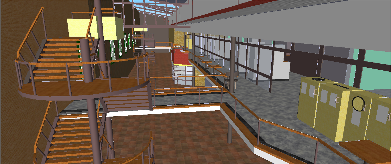 A 3D model of a school corridor.